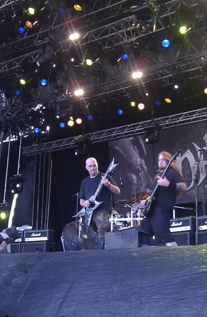 Dallas Toller-Wade from Nile during Metaltown 2010 festival